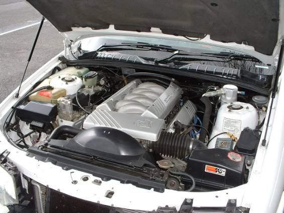 5.0 litre V8 engine of a 1991–1994 Holden VQ II Statesman.